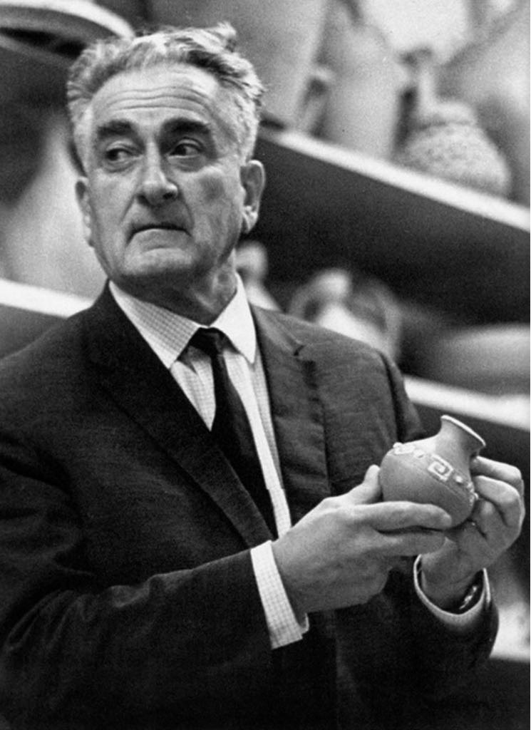 Apollon Kutateladze portrait photograph